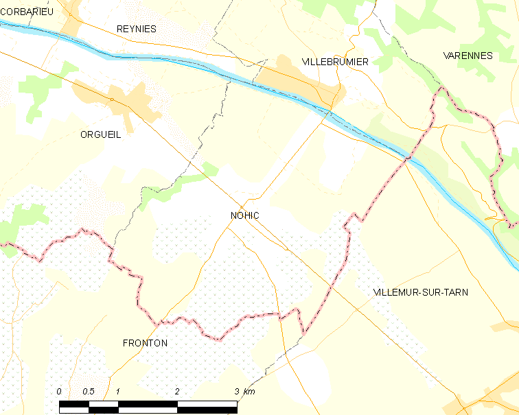 Map of French municipality Nohic